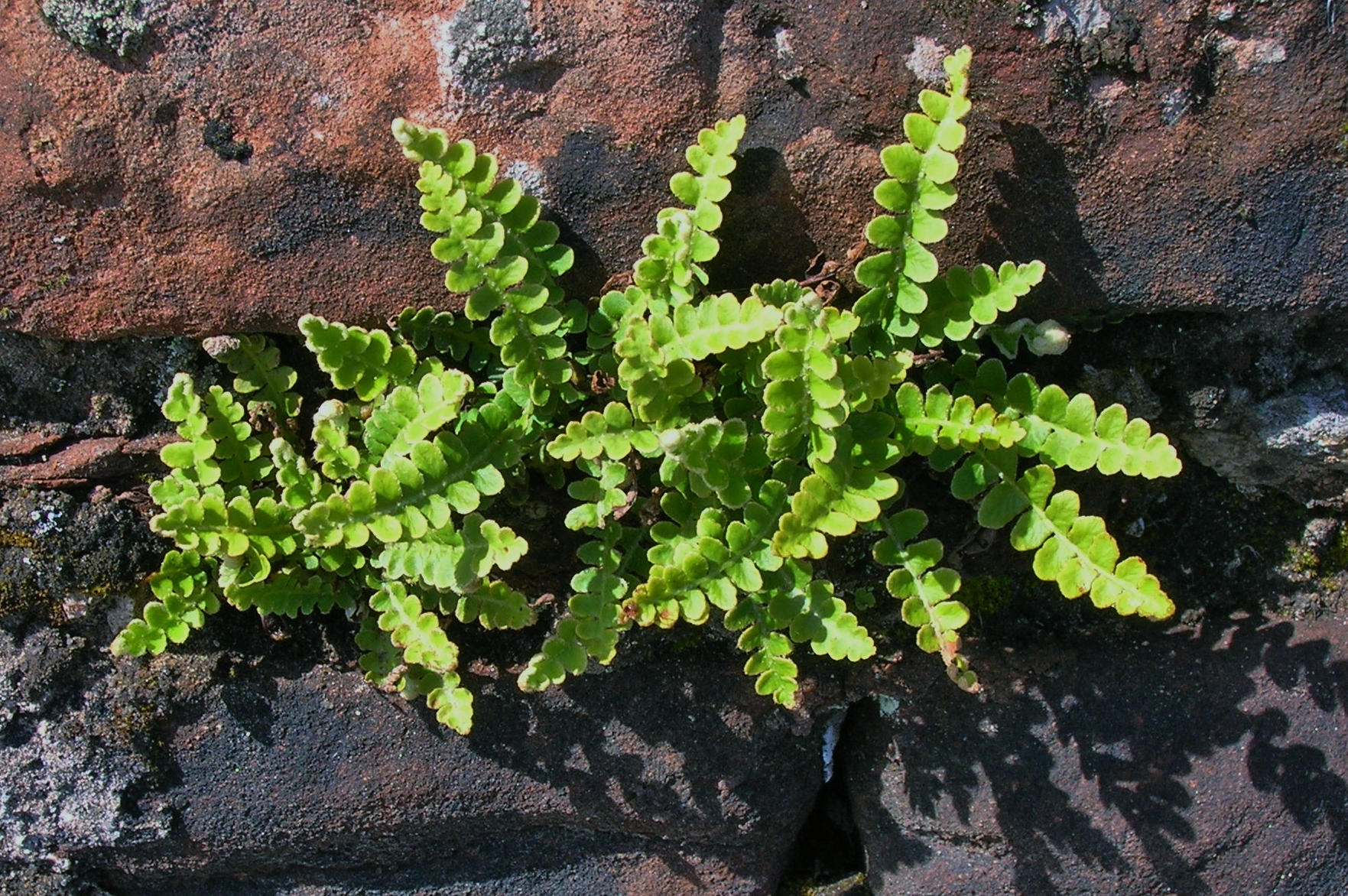 Asplenium ceterach, the Rustyback fern, growing on an old wall at Whiting Bay, Arran, North Ayrshire, Scotland.